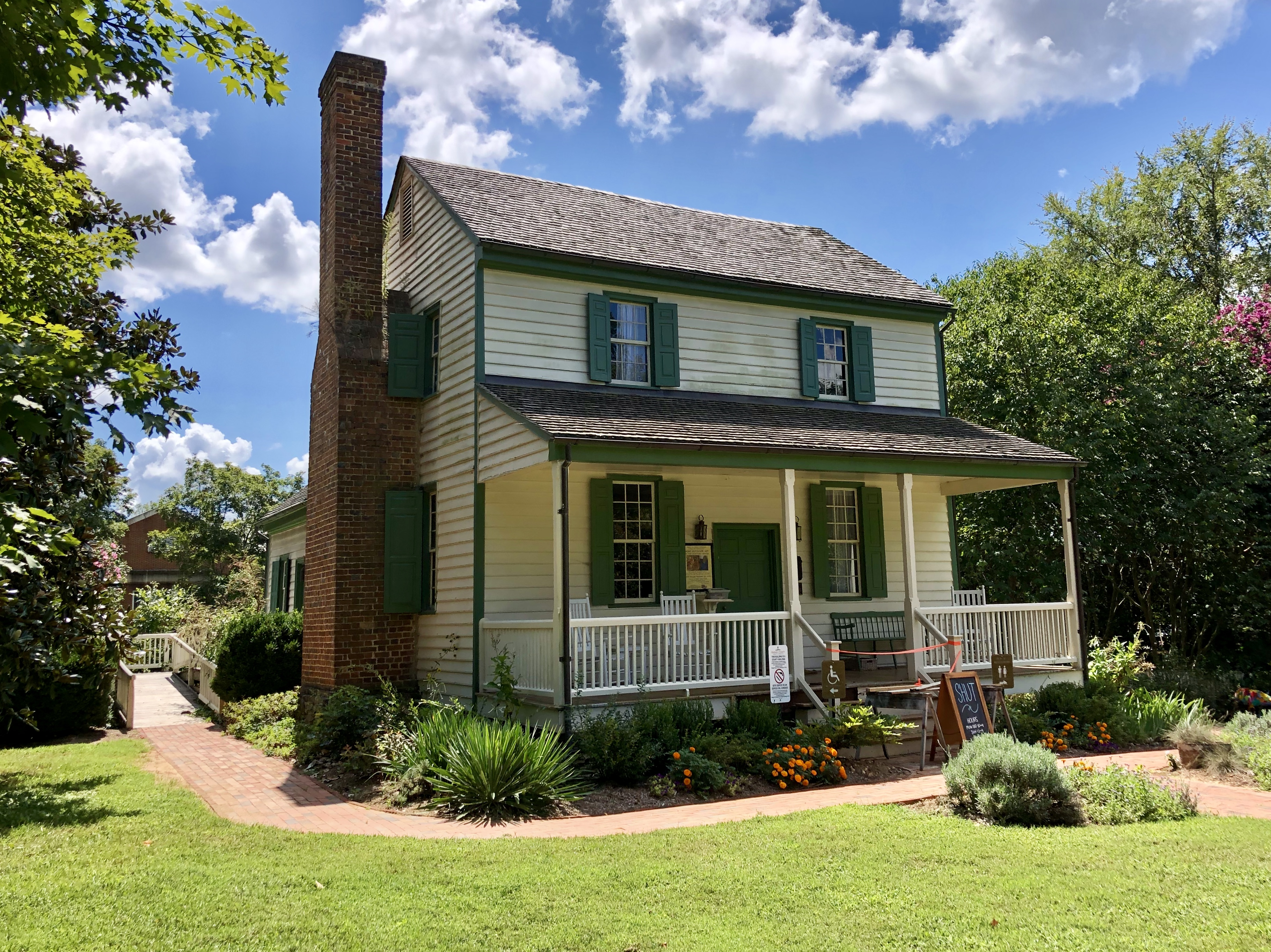 This is the Alexander Dickson House, constructed circa 1790, and located on King Street in Hillsborough, North Carolina. The house is now the Hillsborough Visitor's Center, and is a contributing structure in the Hillsborough Historic District, listed on the National Register of Historic Places in 1973.